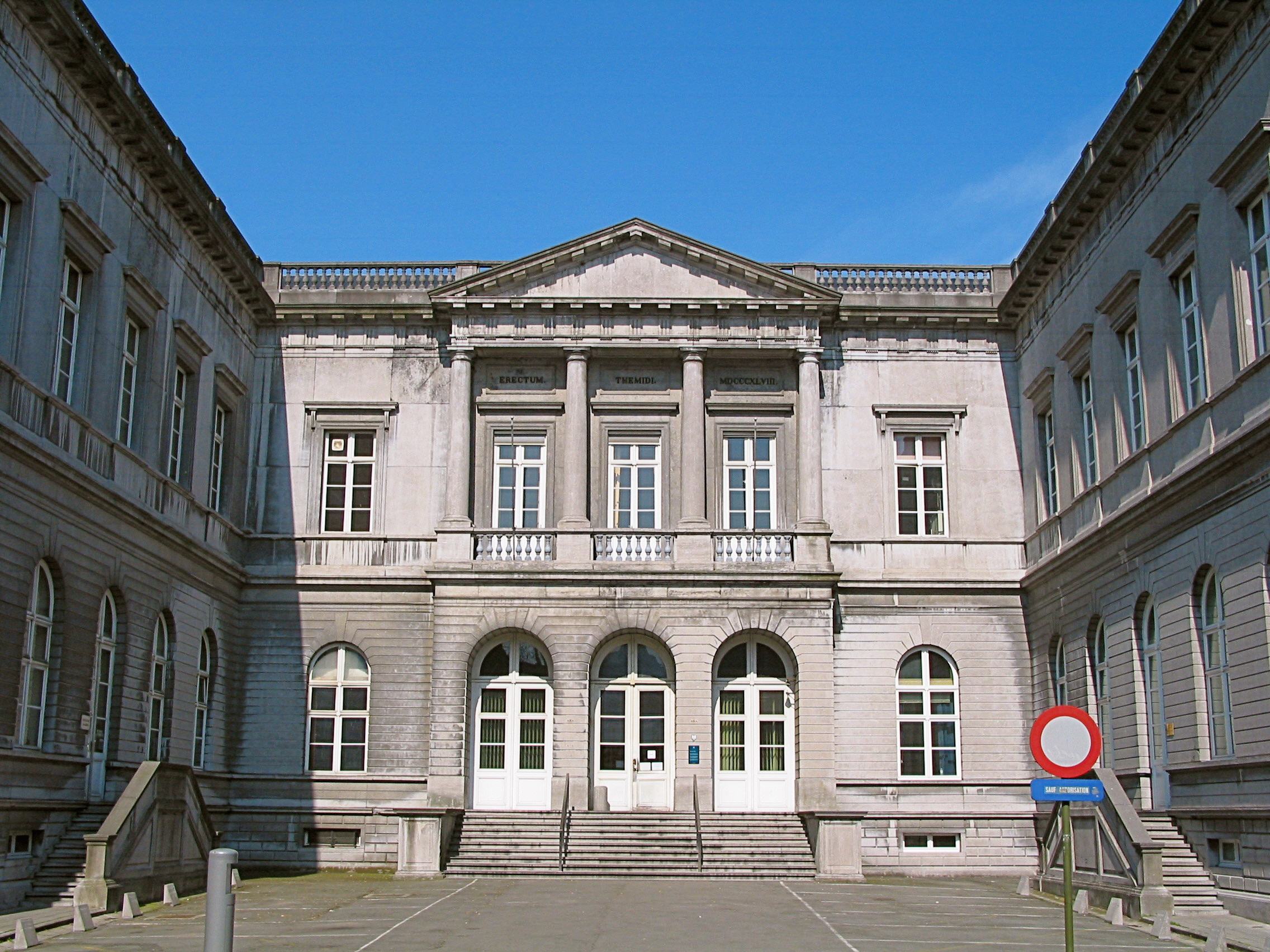 Mons (Belgium), the old courthouse (1868).